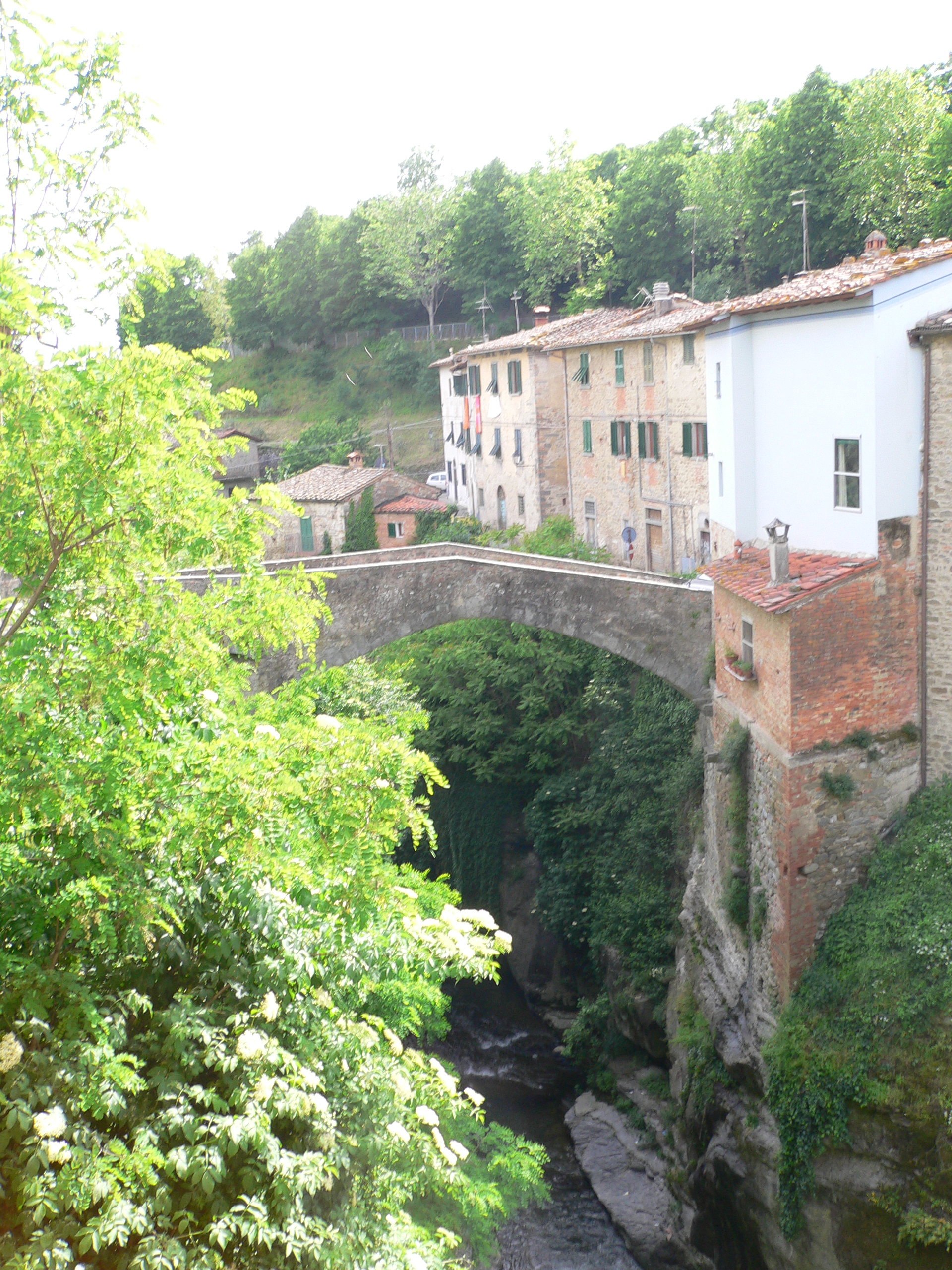 Bridge in village of Loro Ciuffiana